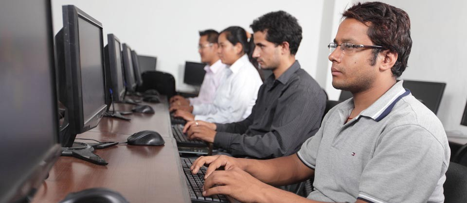 sunway college lab nepal